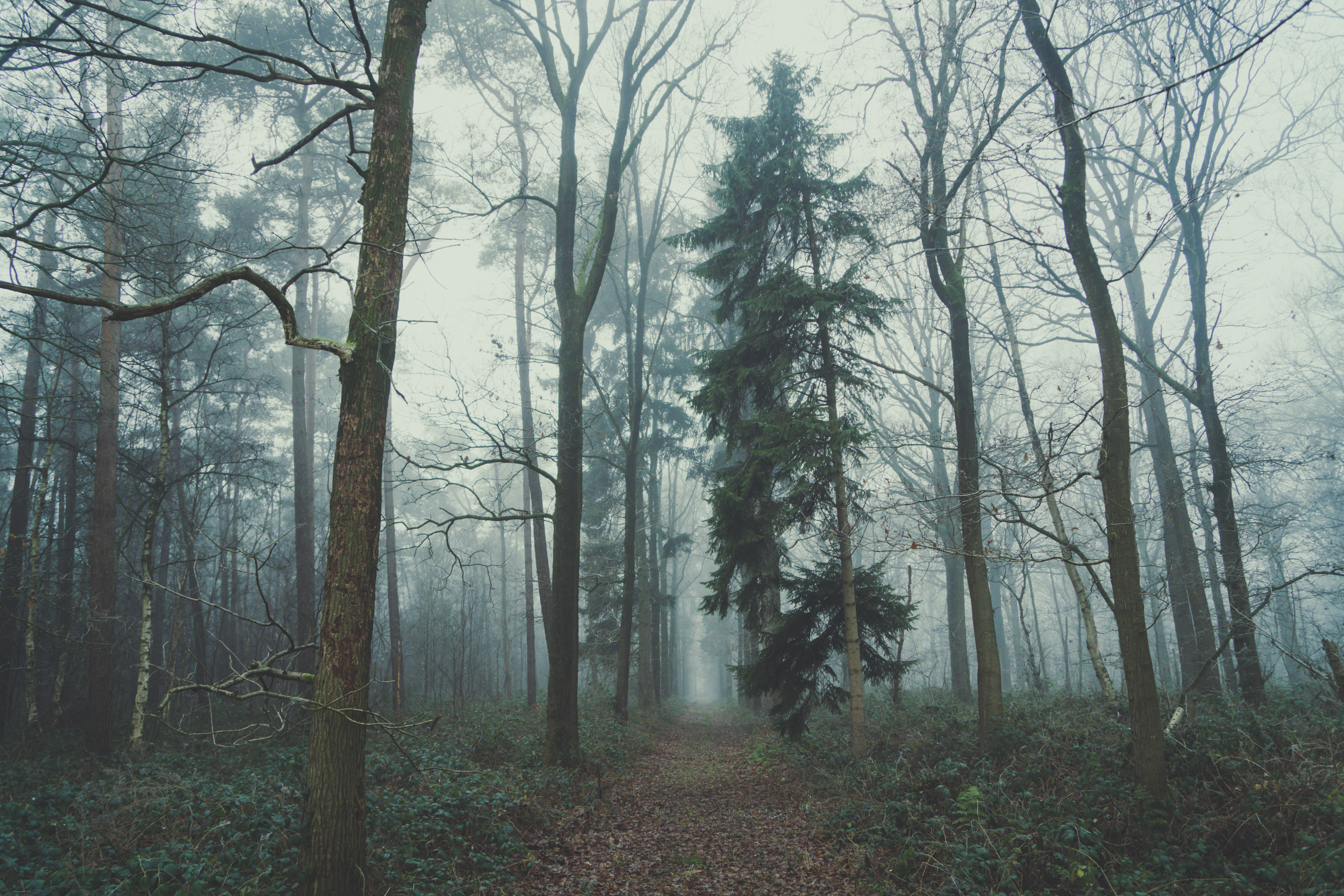 Hooggoed, Maria-Aalter, Belgium